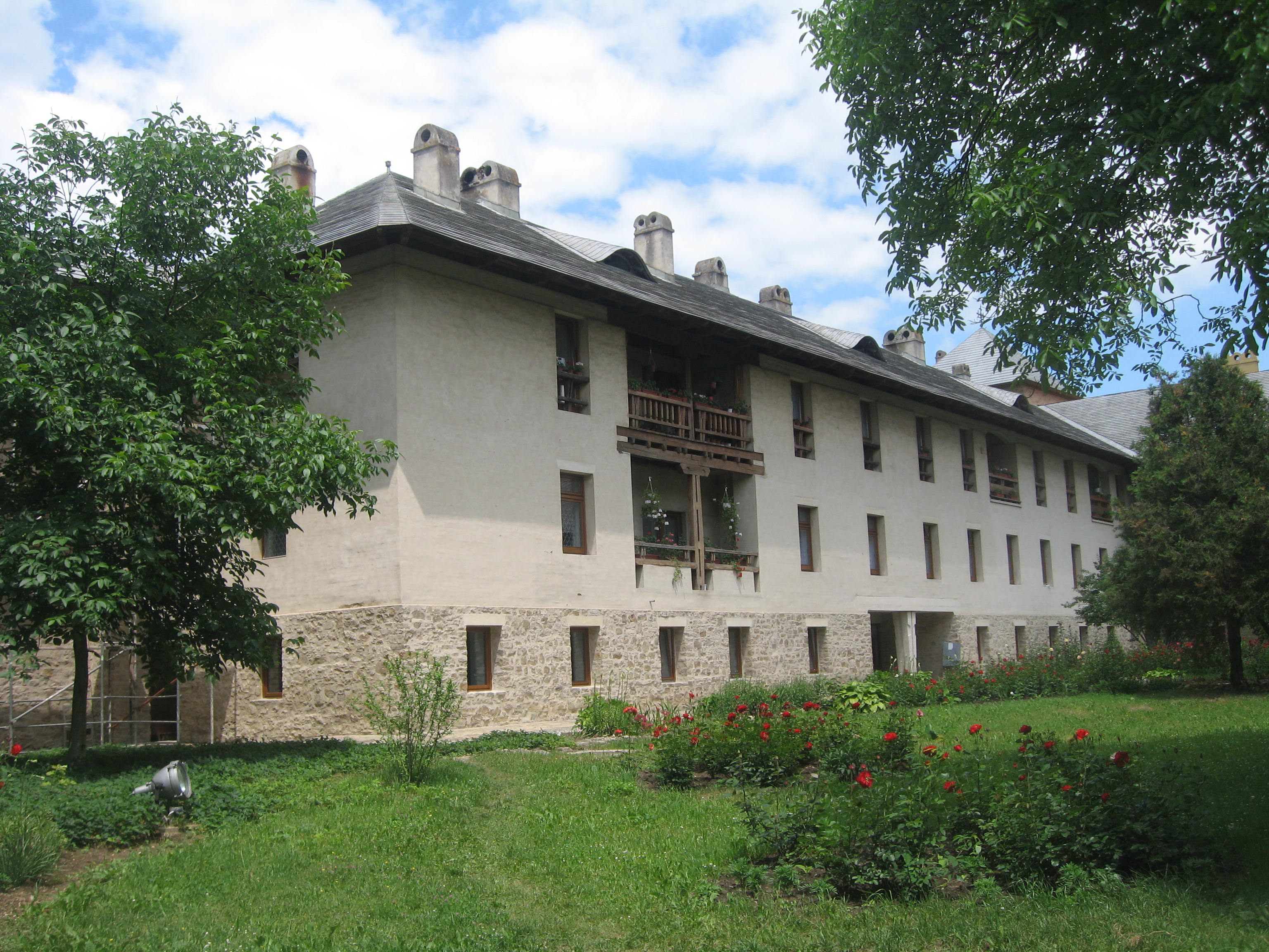 Dragomirna Monastery